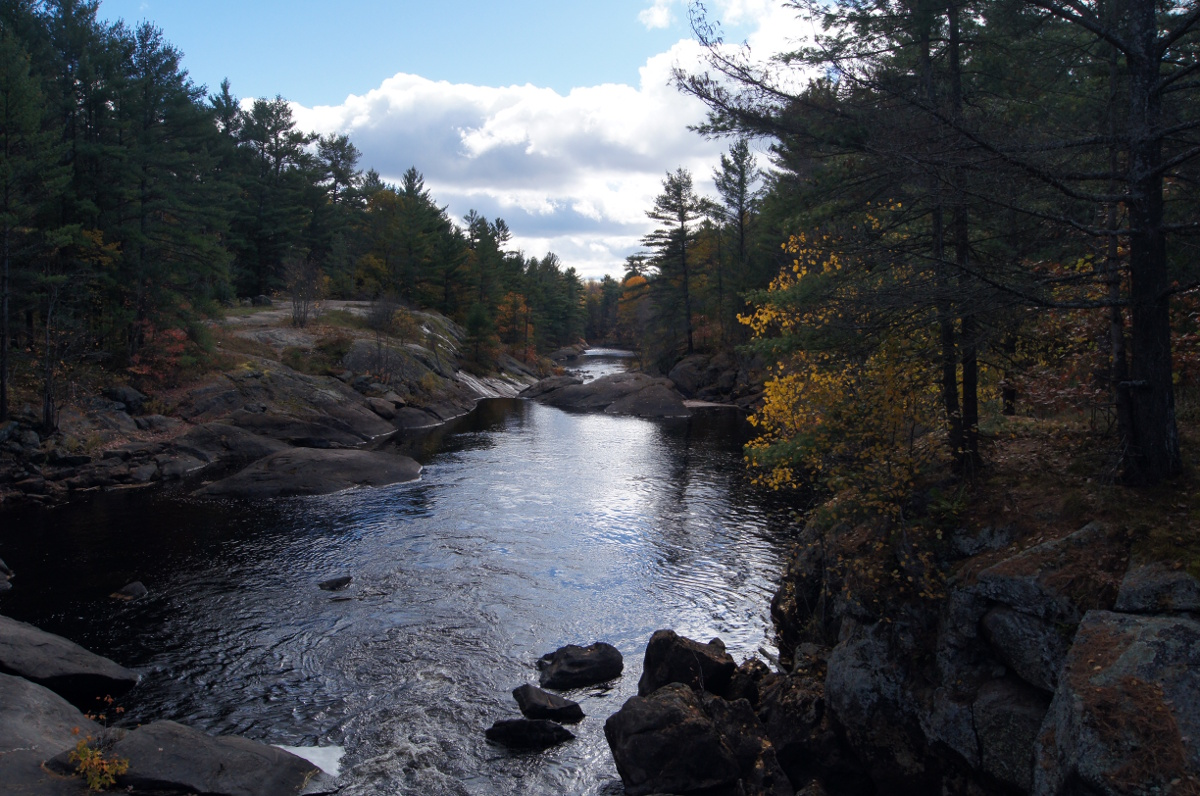 Black River in the north-western region of Queen Elizabeth II Wildlands Provincial Park in Ontario